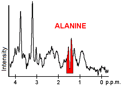 Author = David J. Manton, Ph.D. Source = Own work. Fair use = Yes. This image is uploaded for the purposes of educational use.